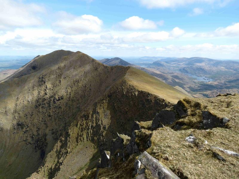 Summit of Maolan Bui, and the summit ridge, taken from Cnoc an Chuillinn; Cnoc an Chuillinn East Top is in the foreground